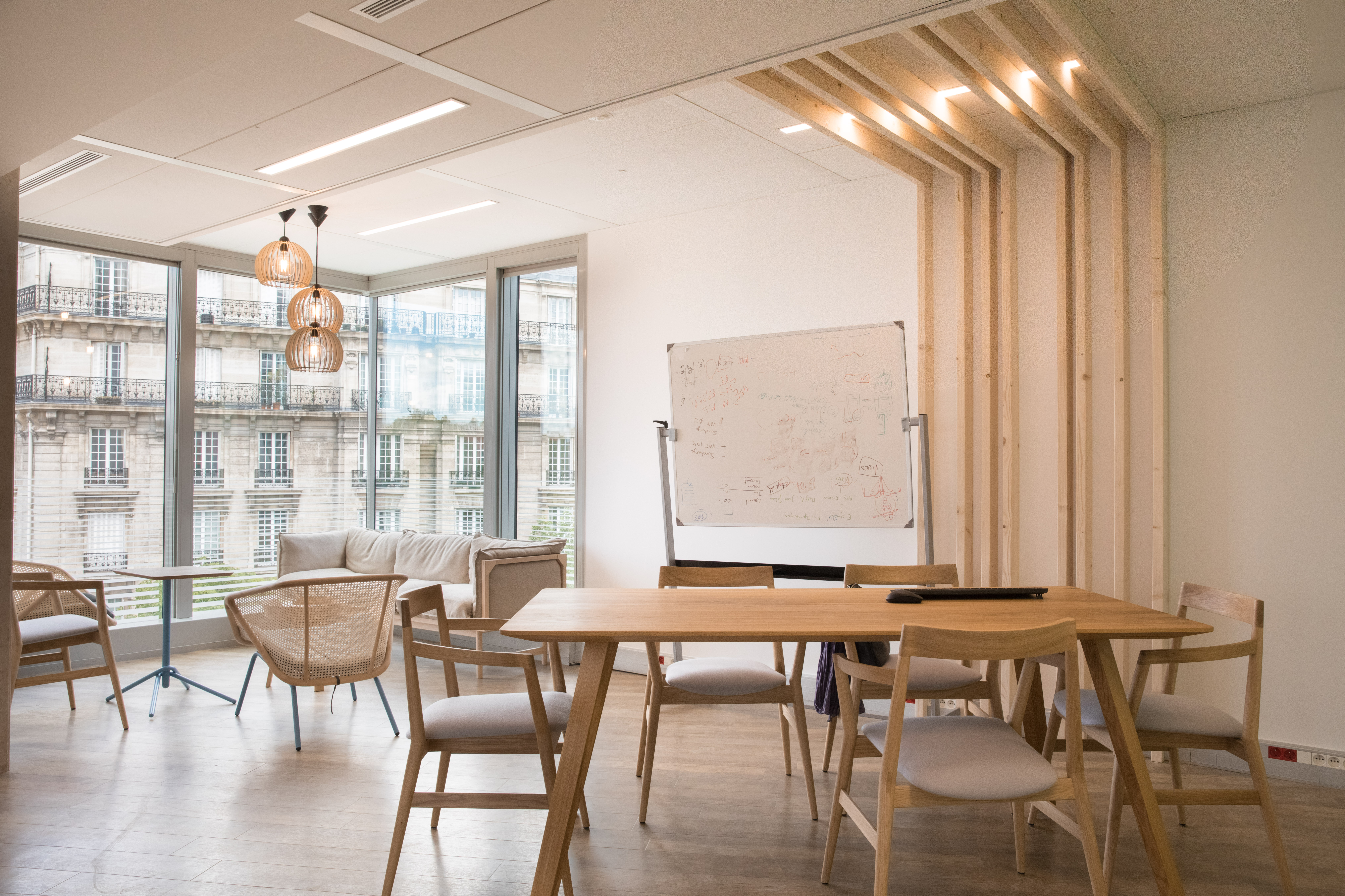 Headquarters Europcar Mobility Group in Paris